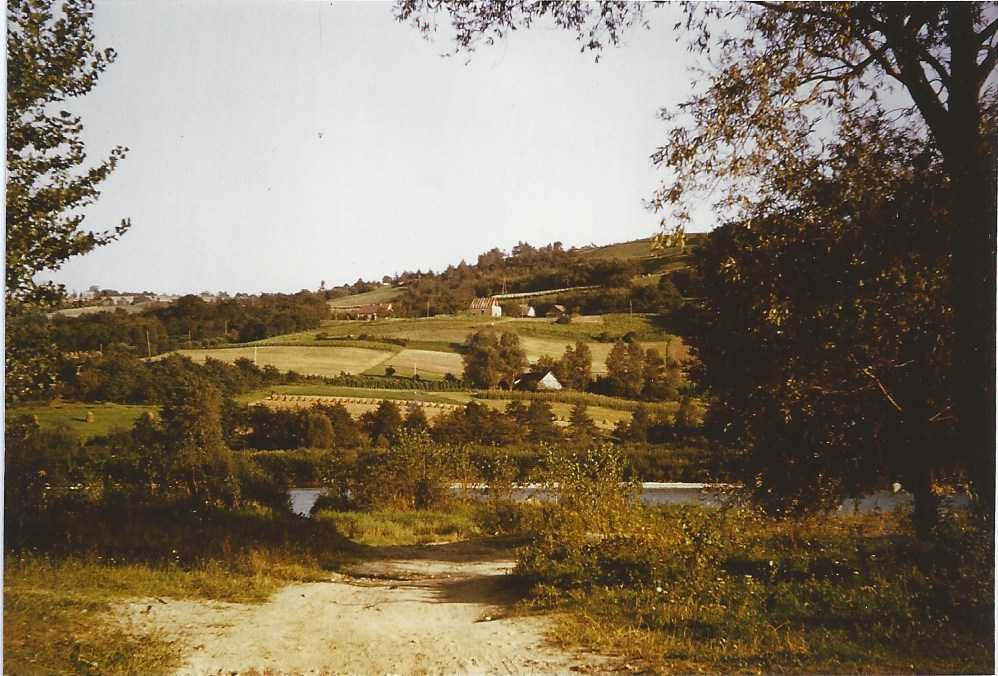 Landscape in Wojnicz on the banks of the river Dunajec